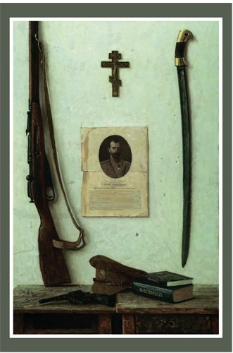 Open Letter (Carte Postale) of Russian Post "Za Very Tzarya i Otechestvo". Reproduction of Dmitry Shmarin oil on canvas, 2002